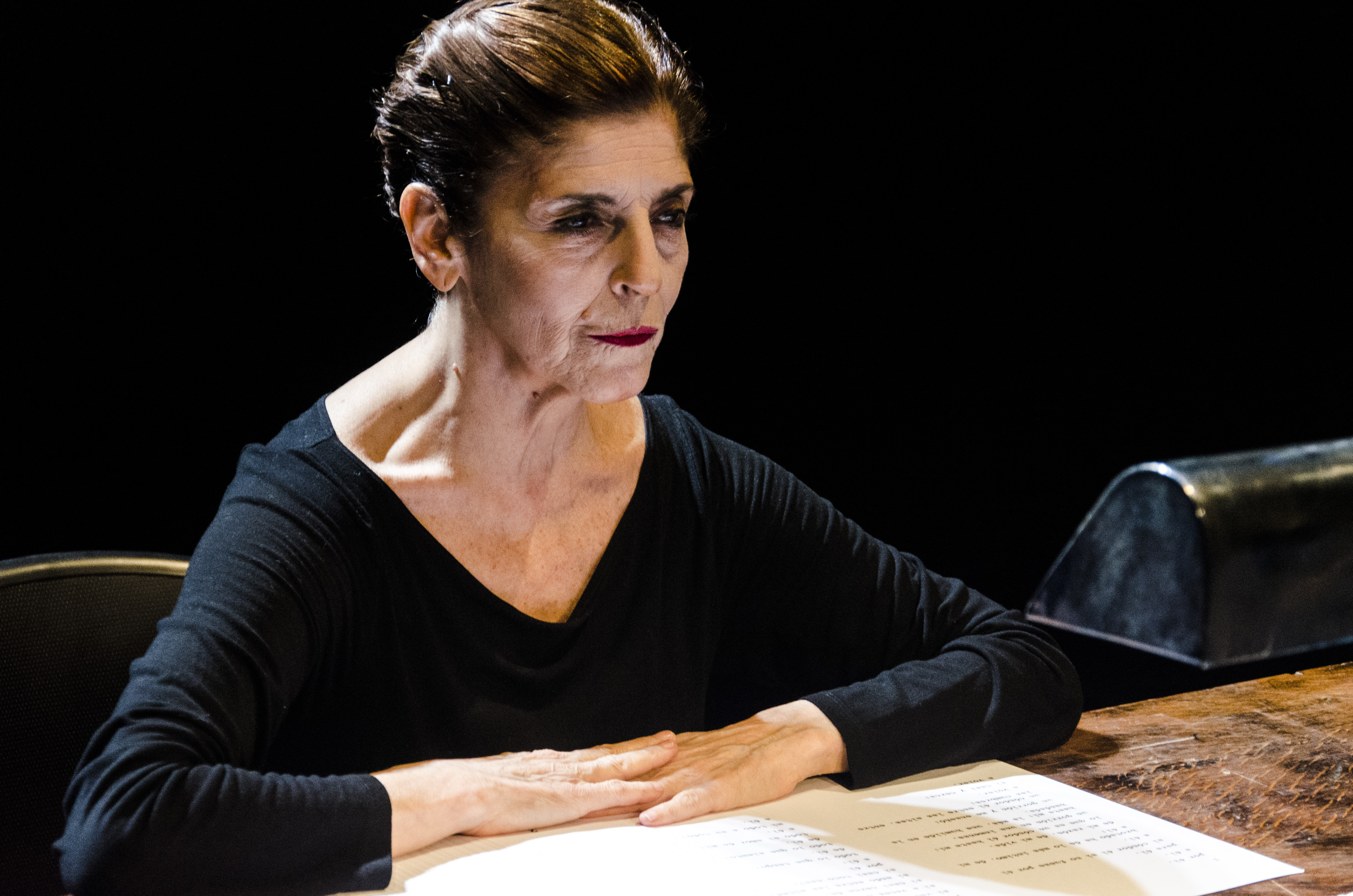 Buenos Aires, 30 de agosto de 2014 - El Ministerio de Cultura de la Nación presenta el ciclo de poesía y teatro "Ocho Mujeres: Cinturas Cósmicas del Sur", en homenaje a poetisas latinoamericanas.Organizada por el programa Café Cultura, la iniciativa recoge las obras de poetisas y poetas latinoamericanos, para homenajearlos de la mano de ocho actrices que recorrerán las Casas del Bicentenario de todo el país, encarnando algunos de sus textos y acercándolos al pueblo a través de palabras, música, imágenes y lenguaje teatral.El lanzamiento del ciclo fue en el Centro Cultural de la Memoria Haroldo Conti con la obra“Eva Perón en la hoguera”, a partir del poema homónimo de 1972 de Leónidas Lamborghini, interpretado por Cristina Banegas.Fotos: Romina Santarelli / Ministerio de Cultura de la Nación.